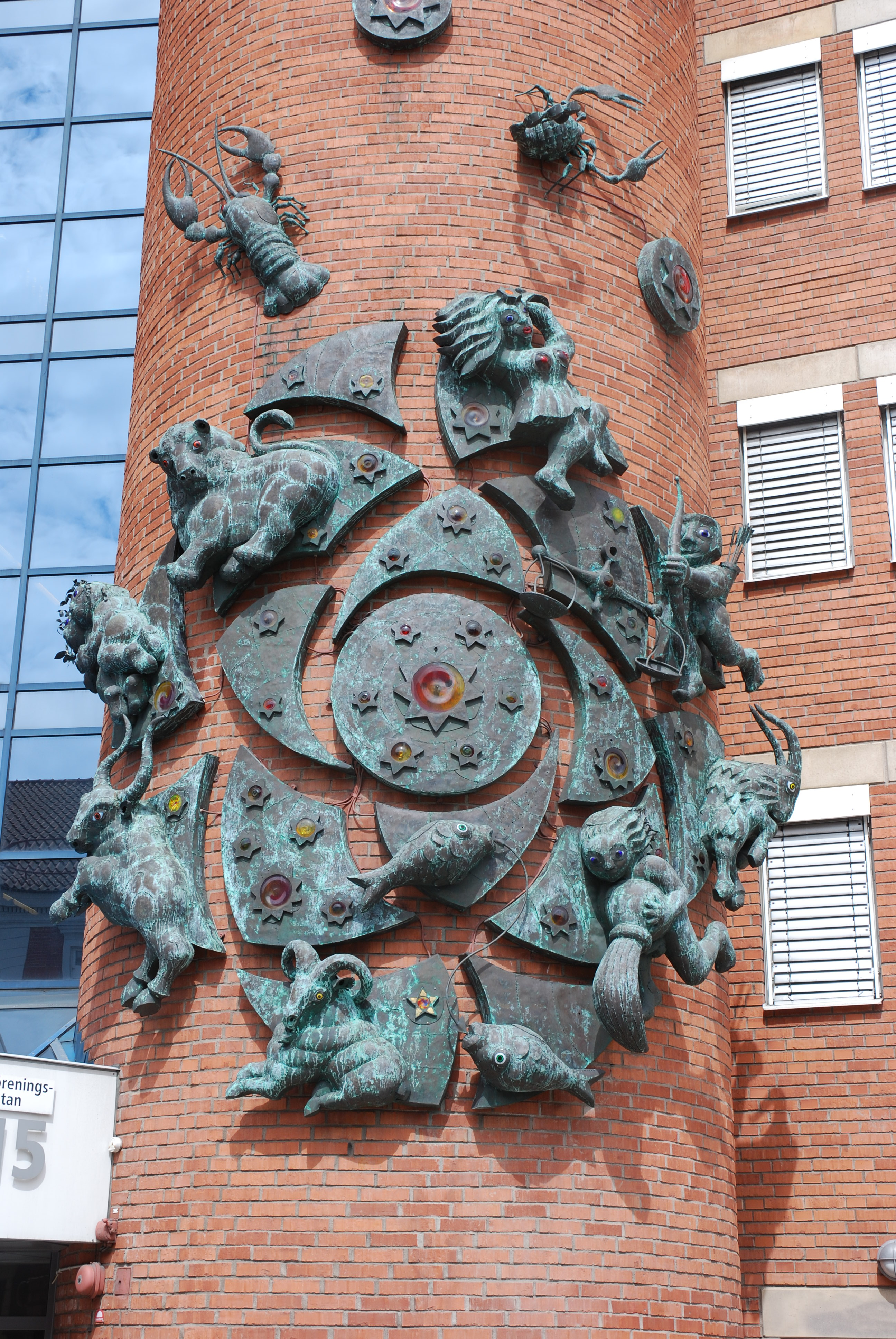 Walter Bengtssons Zodiakens tecken i Malmö